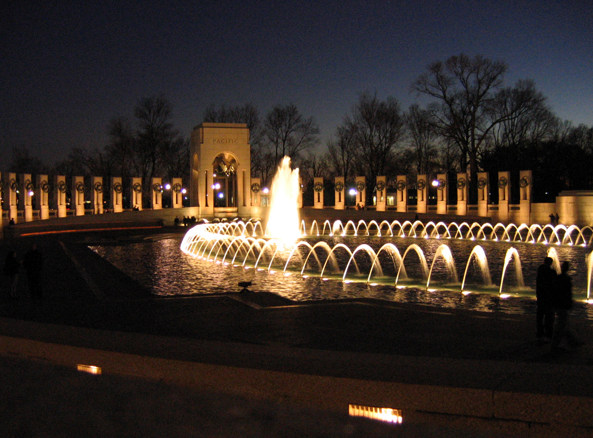 National World War II Memorial, Washington, D.C..